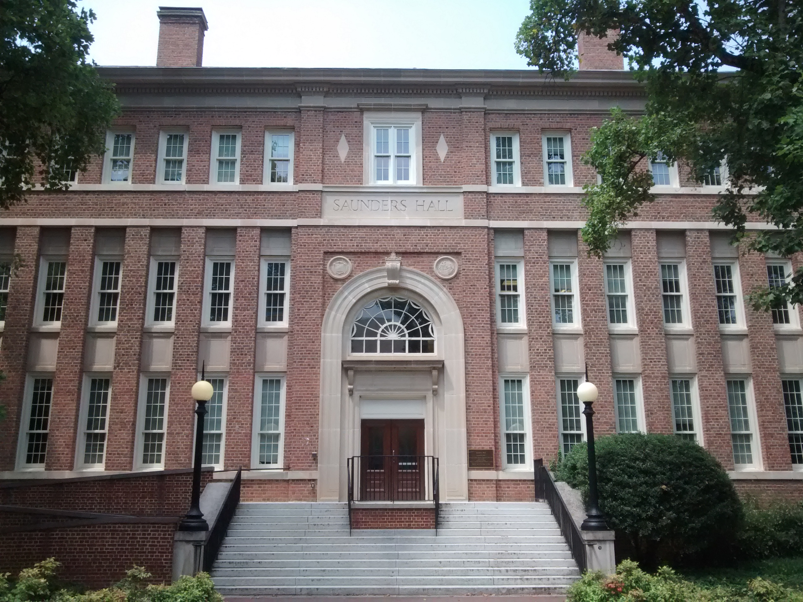 Saunders Hall at the University of North Carolina at Chapel Hill. A close-up of the plaque to the right of the door can be seen at File:Plaque at Saunders Hall.jpg.